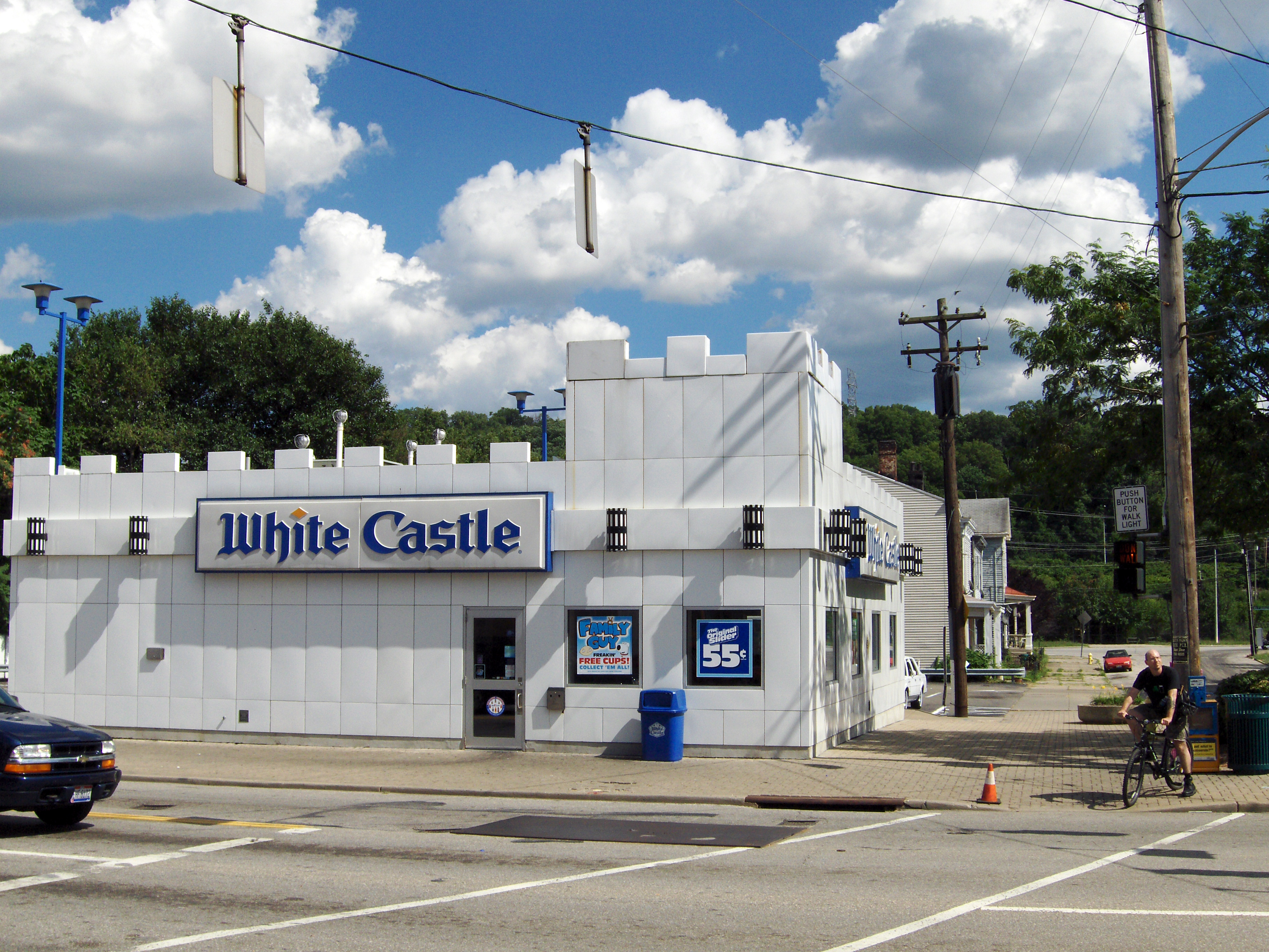 First impressions of Northside, my new neighborhood. My first time living near a White Castle. The staff inside seemed really angry when all I ordered was a soda.